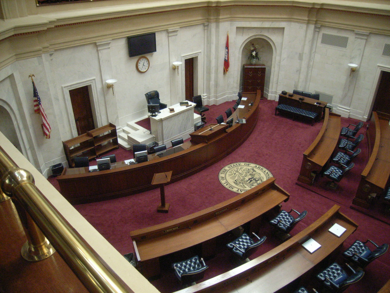 Arkansas State Senate Chamber.